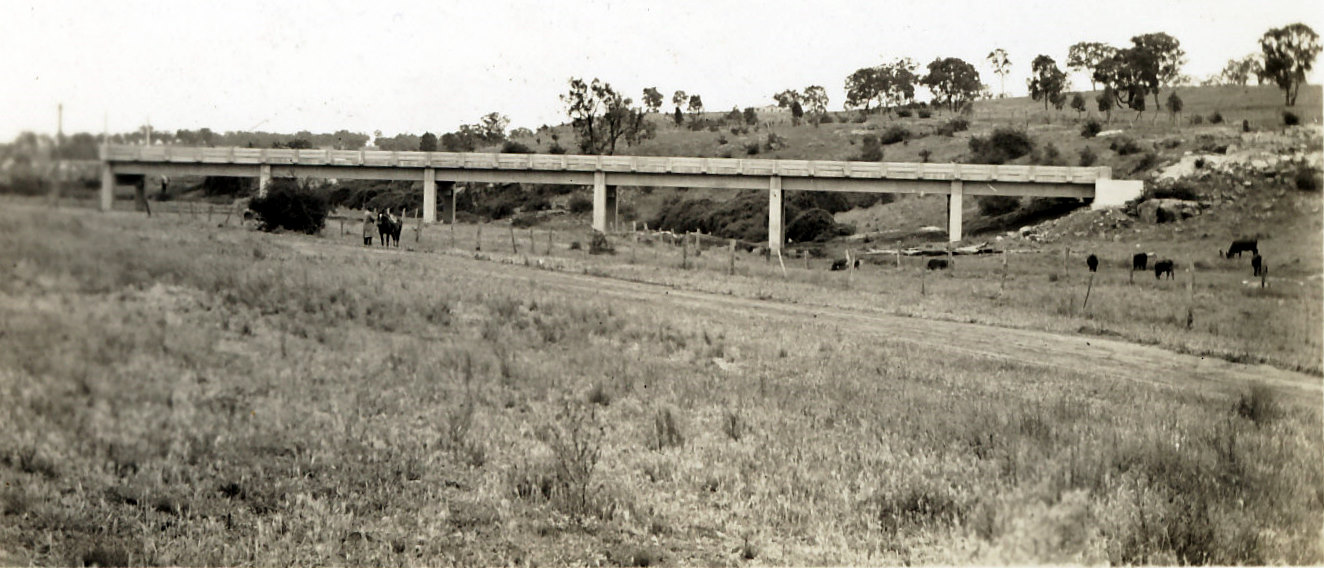 The bridge at Rylstone (New South Wales, Australia), over the Cudgegong River during construction.